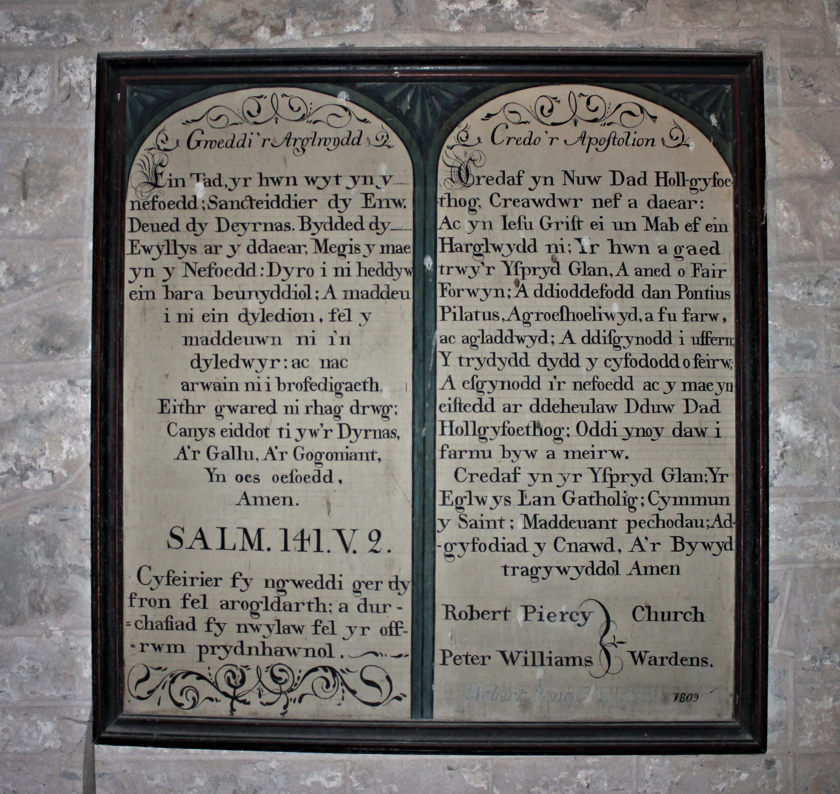 Boards on West wall, with the creed, Lords prayer and commandments in Welsh. One signed `Robert Jones', dated 1809. St Mary's Church, Cilcain Flintshire, North Wales. Grade I Listed Building. Date Listed: 11 June 1962; Cadw Building ID: 295